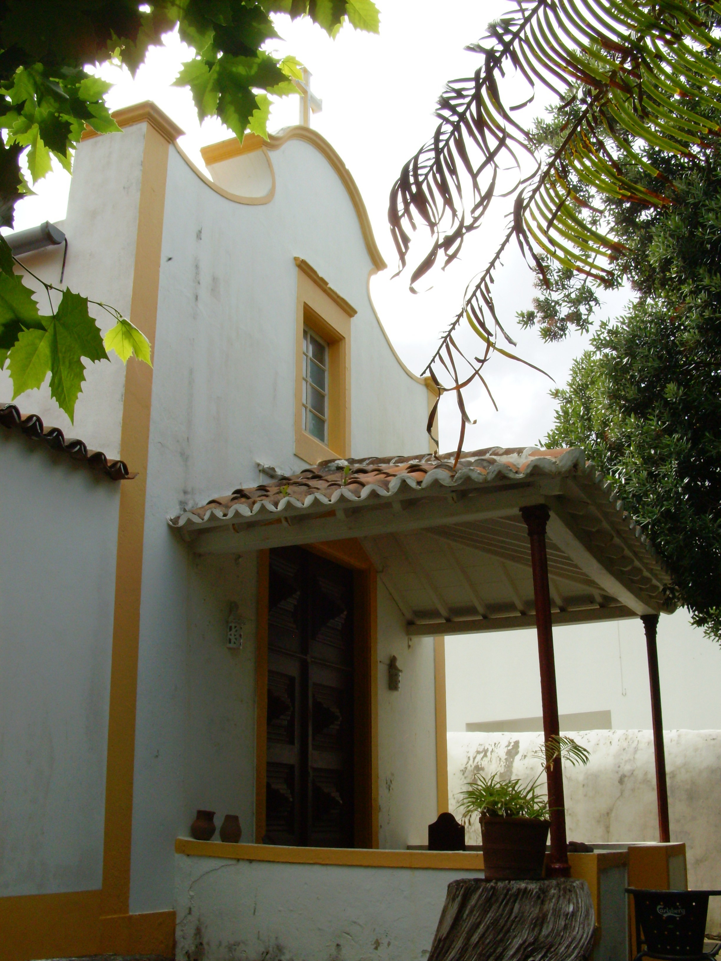 The Hermitage of São Lourenço, civil parish of Santa Bárbara, municipality of Vila do Porto (Azores), Portugal